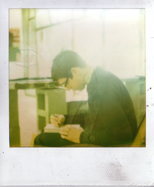 This is a polaroid I took of the artist Aaron Kraten this is not copyrighted and is public domain.